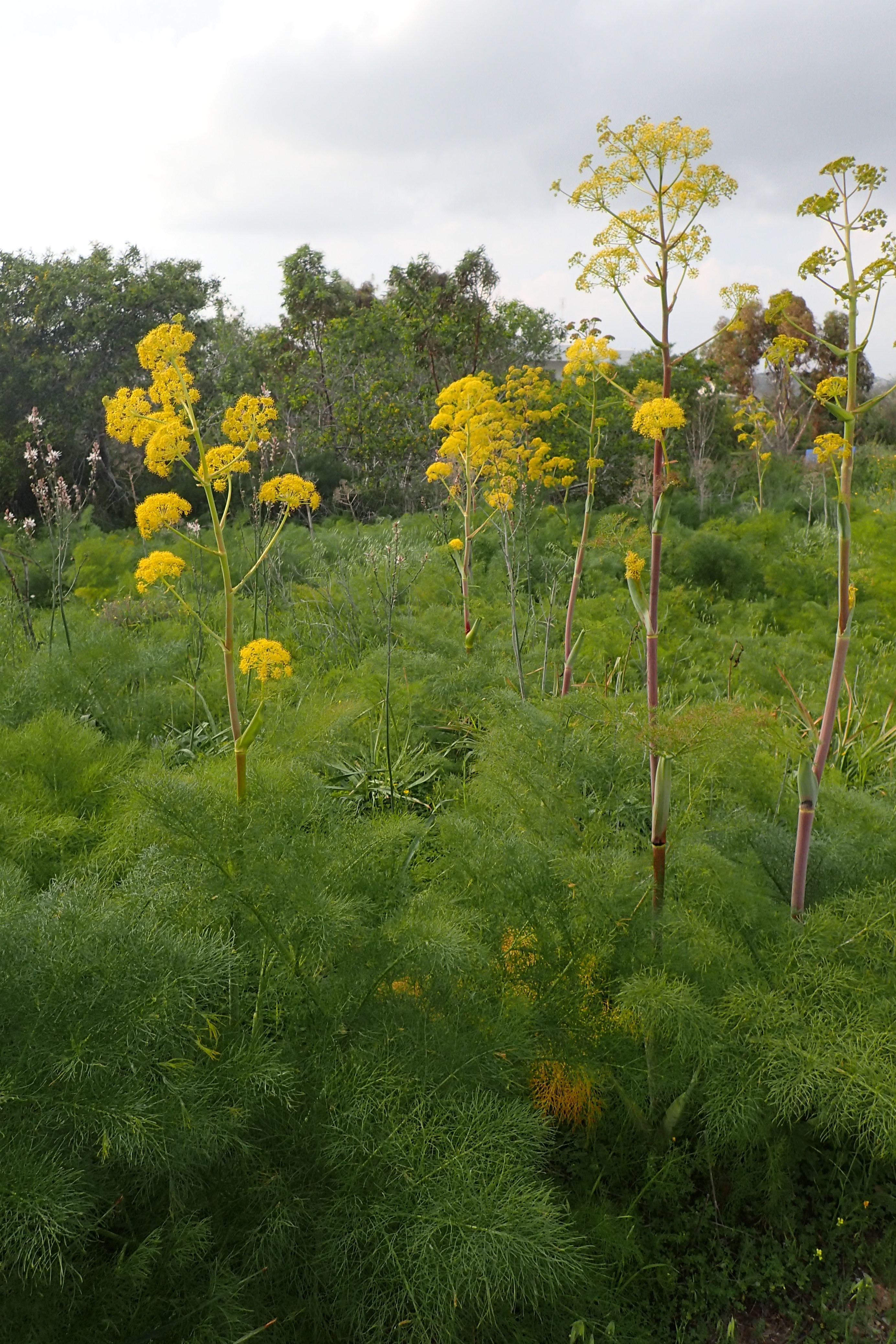 Ferula communis E from Zygi, Cyprus